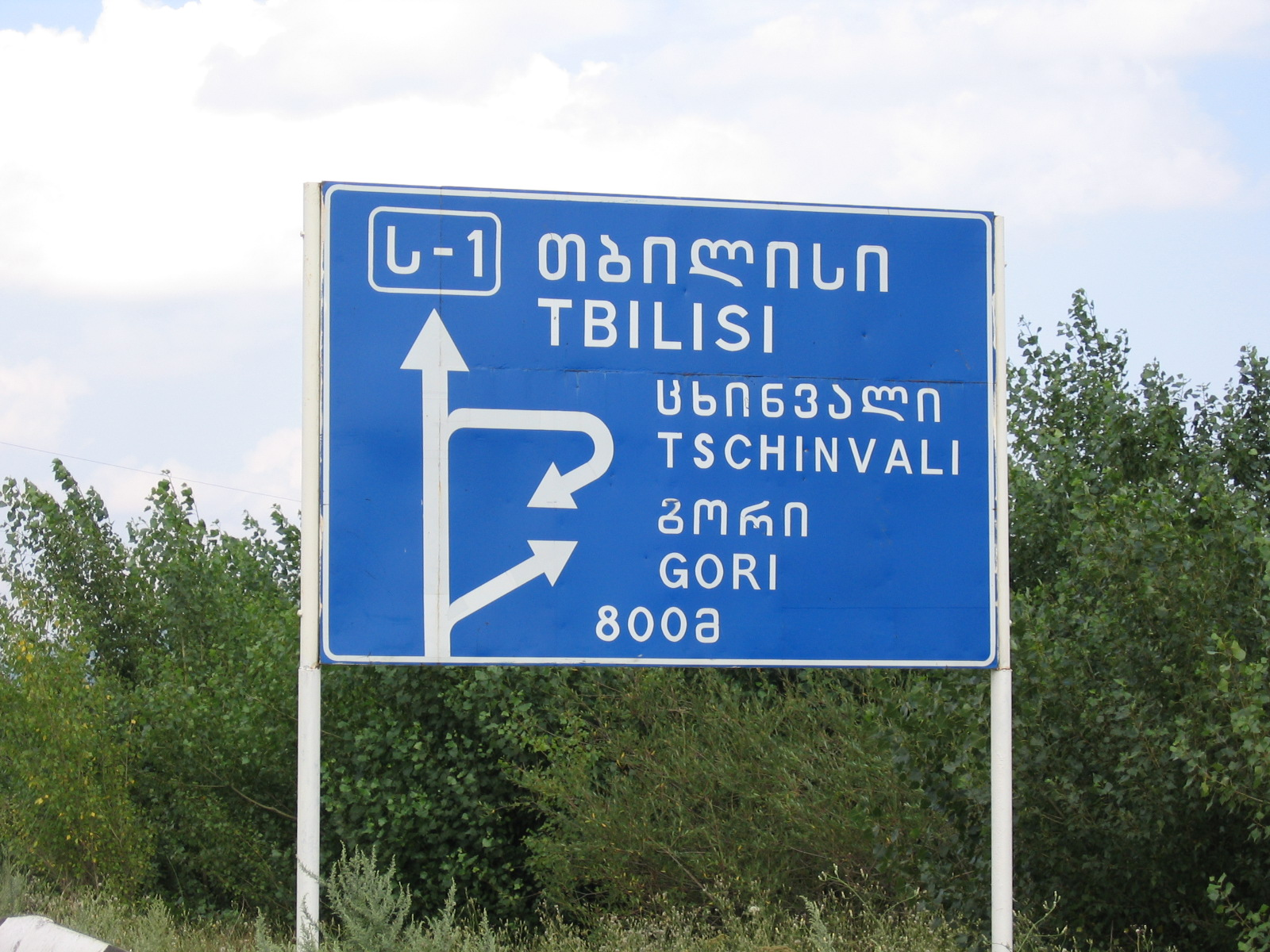 The road to Tbilisi Gori and Tskhinvali